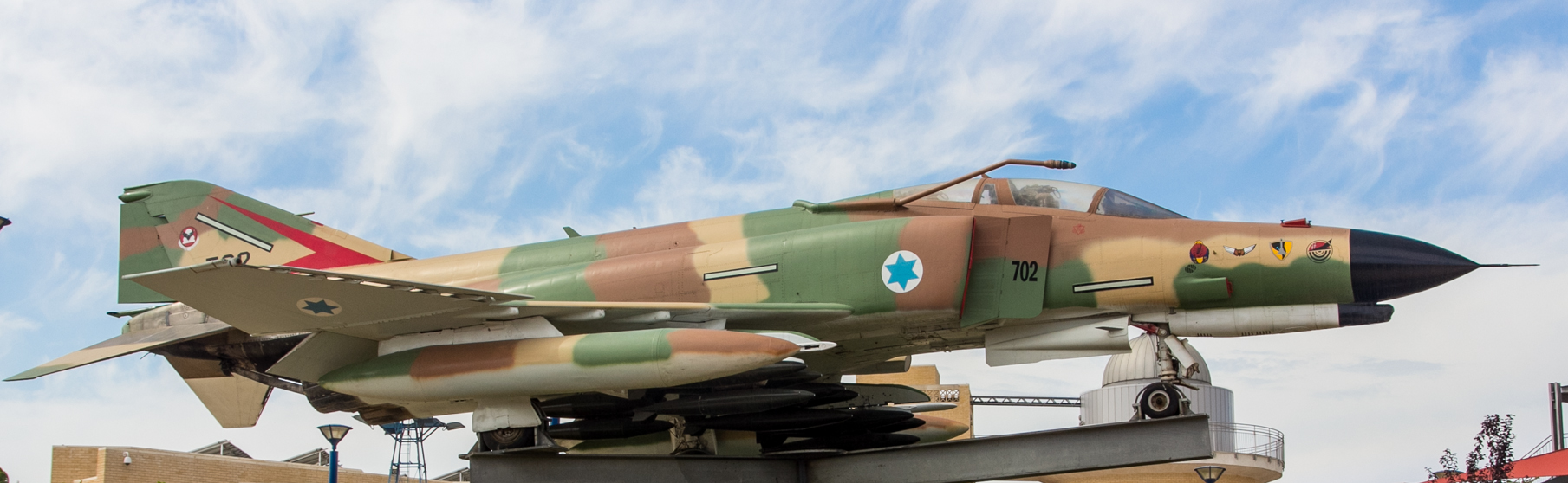 Israeli Air Force 119 "Bat" Squadron F-4E Phantom II at the Givat Olga Technoda